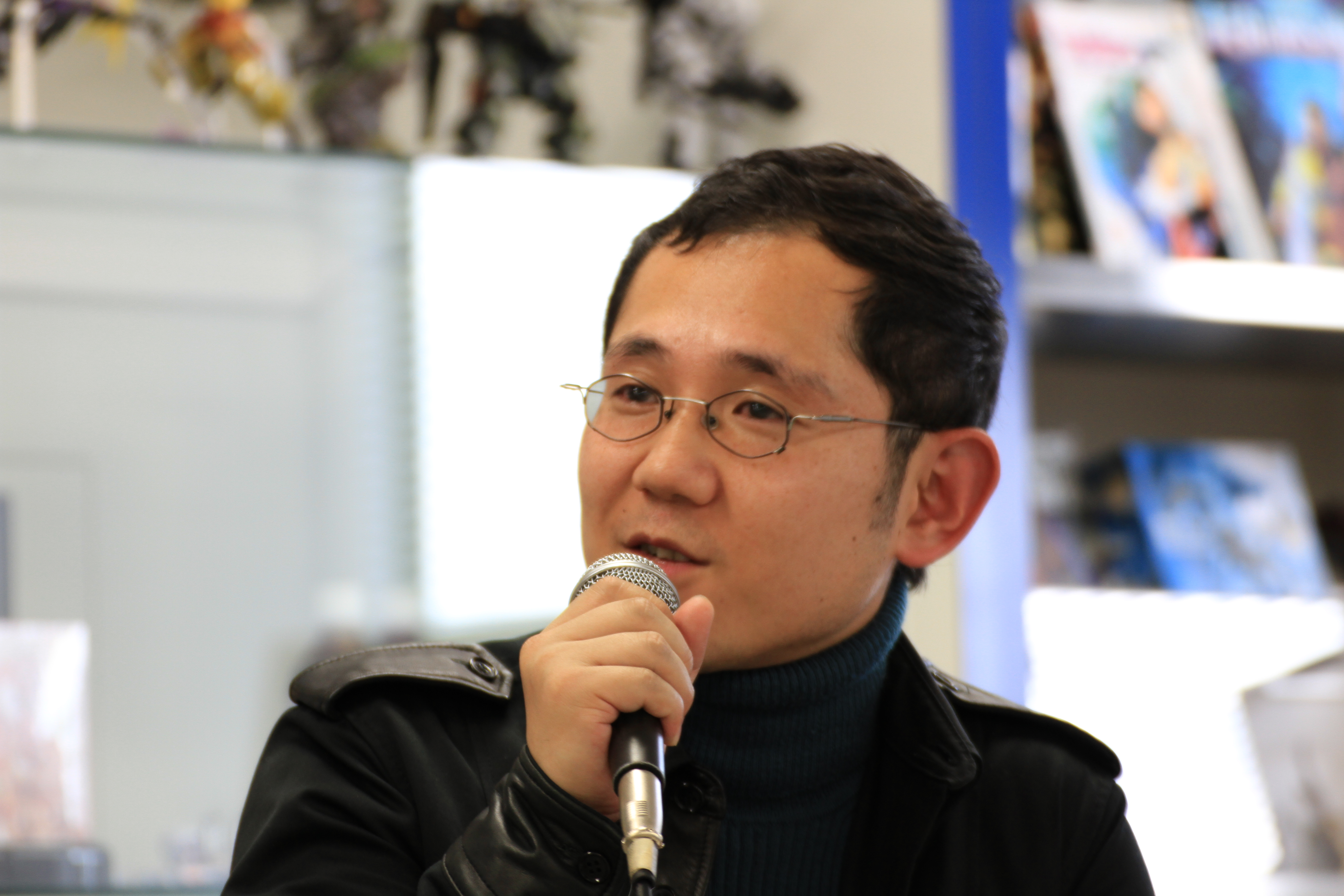 Director Shu Takumi (巧 舟) at a Capcom event for his video game Ghost Trick: Phantom Detective.